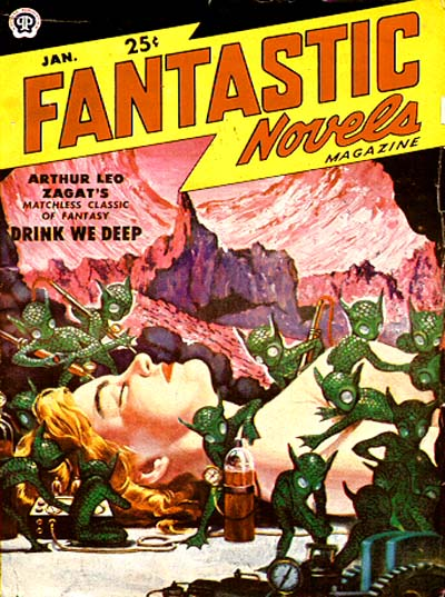 Cover of the January 1951 issue of Fantastic Novels magazine